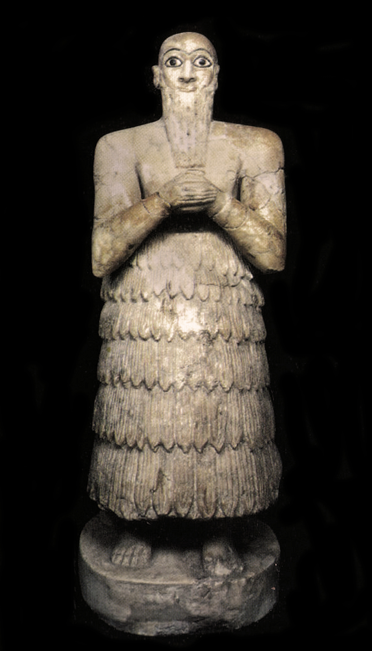 Iku-Shamagan - Mari - Temple of Ninni-Zaza (retouched)